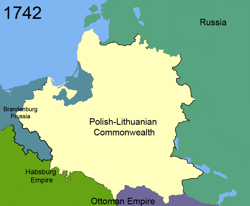 Poland 1742